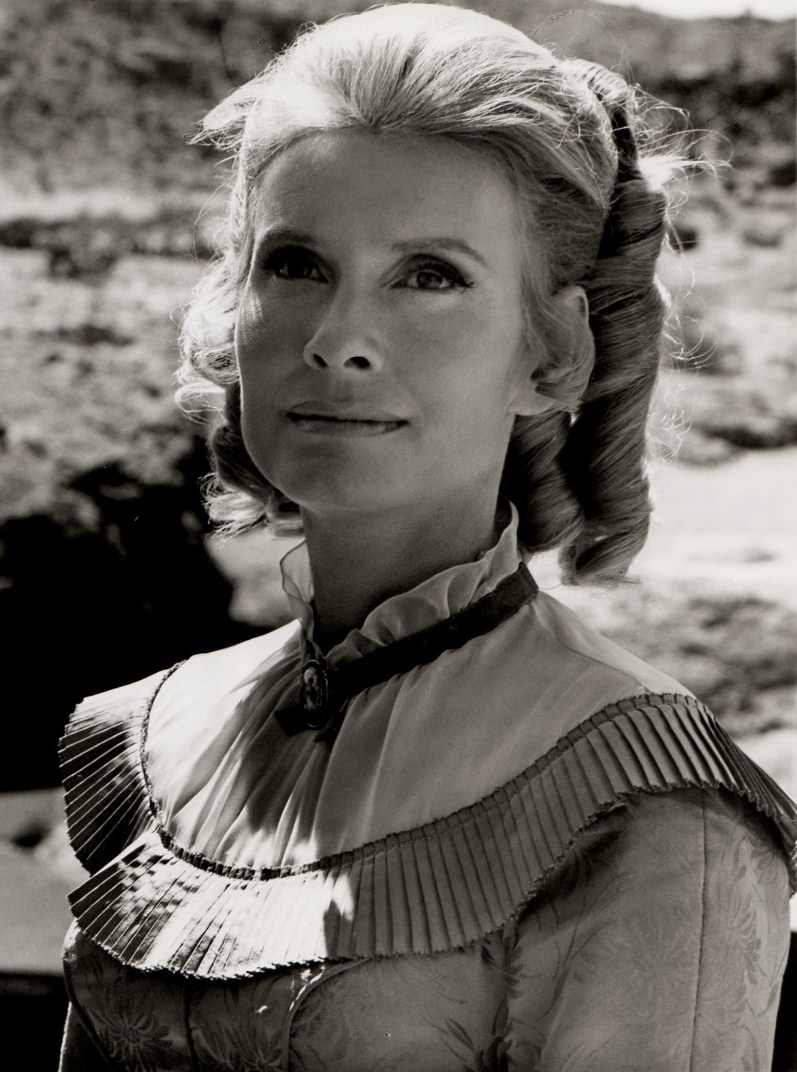 Marian McCargo in The Undefeated - publicity still (cropped : see source)